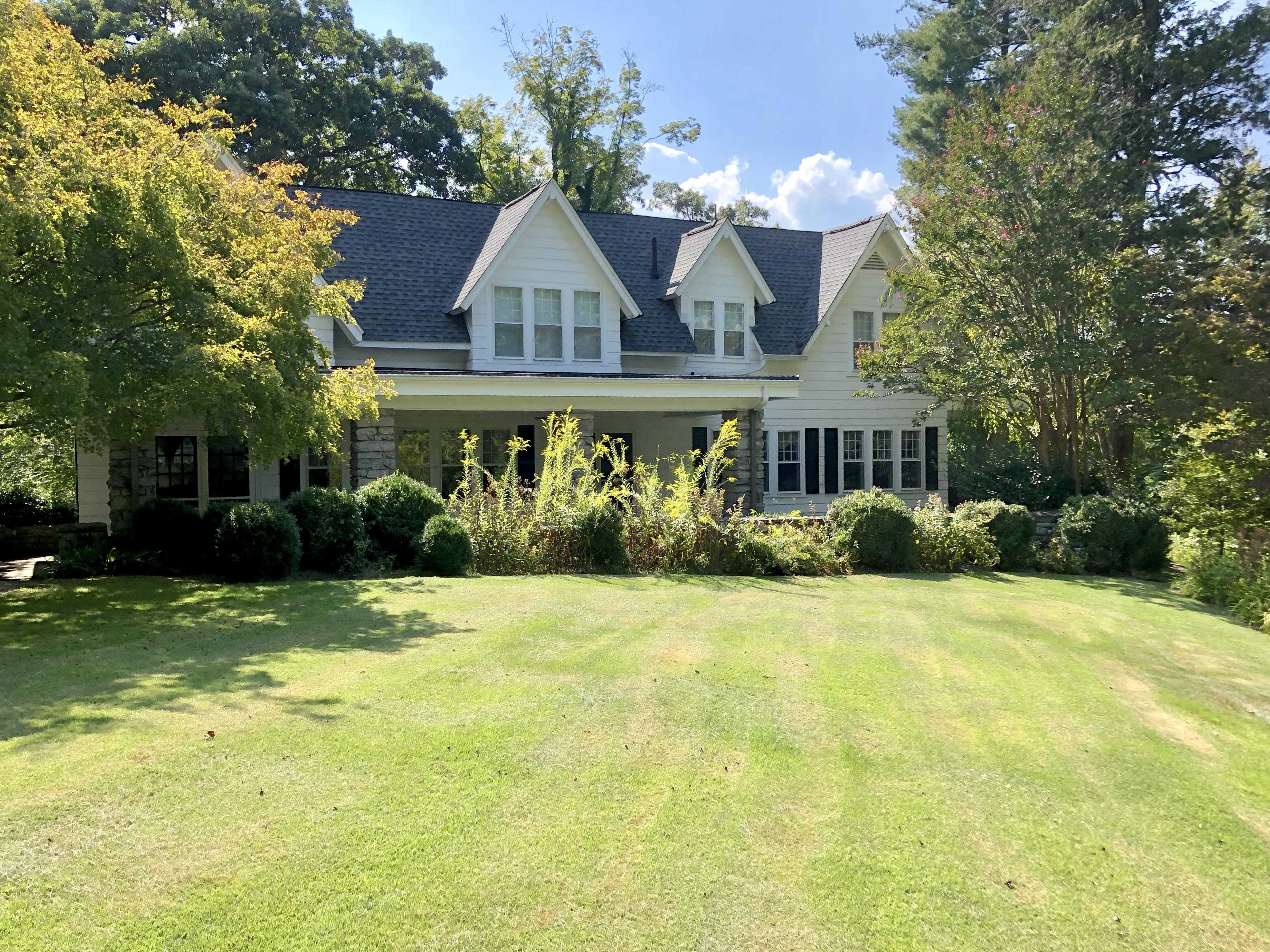 This is the Frye-Randolph House, located on Fryemont Street in Bryson City, North Carolina. The house was initially built by Amos Frye in 1895, with a substantial addition from the early 20th Century to the east and south being visible in this photo. The Frye family built the Fryemont Inn adjacent to the house in 1923. The house and inn were listed on the National Register of Historic Places in 1983.